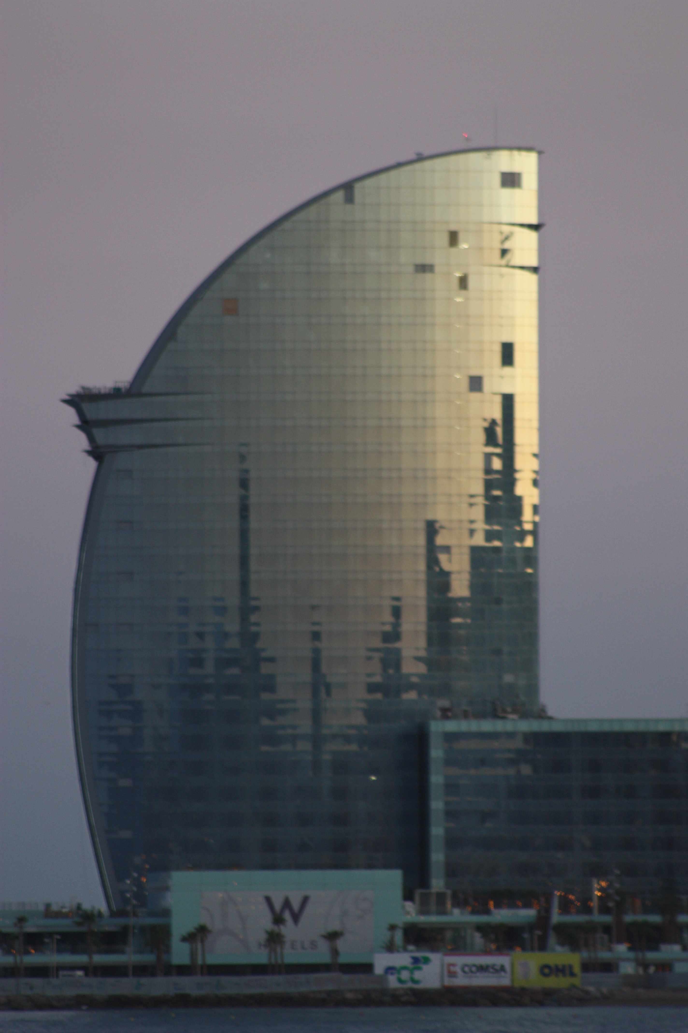 Hotel Vela, Barcelona, July 2009